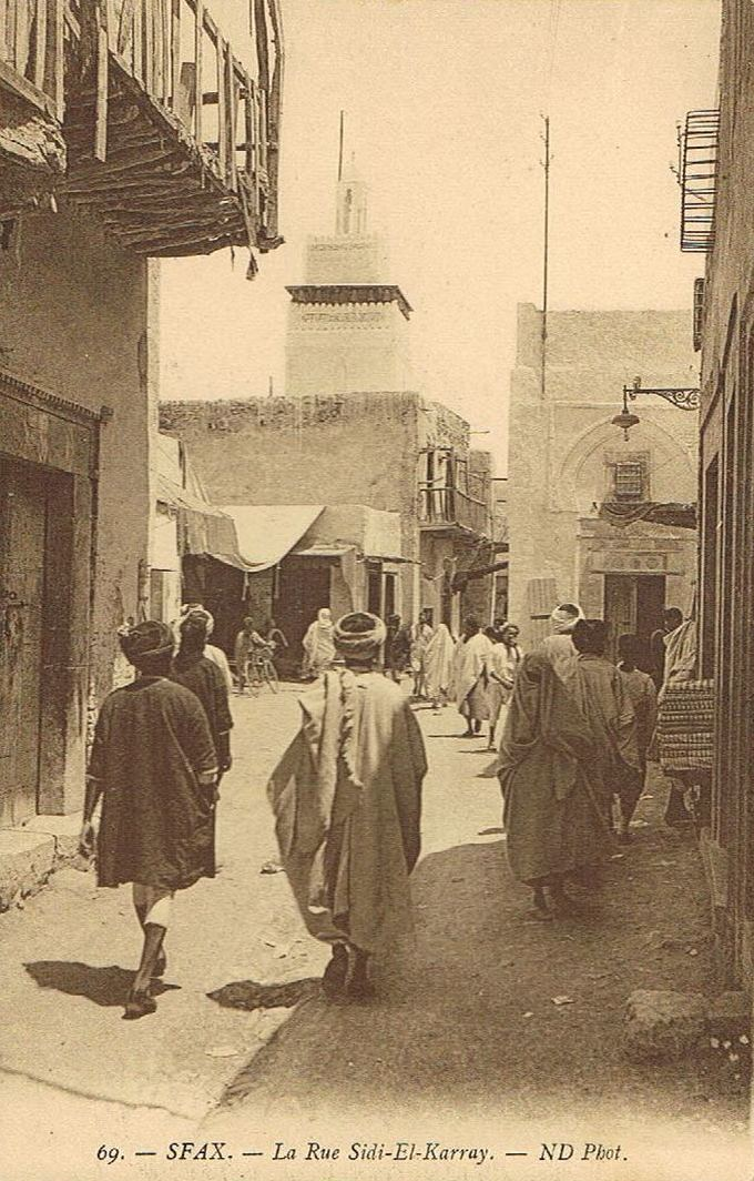 Sidi El Karray Street Sfax